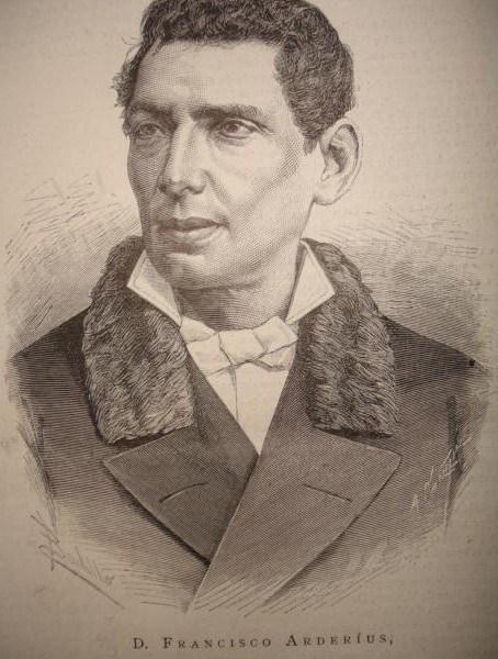 Portrait of Francisco Arderius Bardán (Évora, September 17, 1835 - Madrid, 21 may 1886) was a musician, actor and Spanish businessman born in Portugal who developed its activity having as historical background the days revolution of 1868. After a trip to Paris in Offenbach in 1855, launched the popular «puff out Madrid» following the French model. The new formula, with a style of short, fun, spicy and superficial musical theatre, was a popular success in the framework of the Spanish scene.